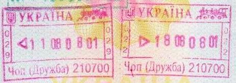 Passport stamps for rail from Chop, Ukraine-Hungary border